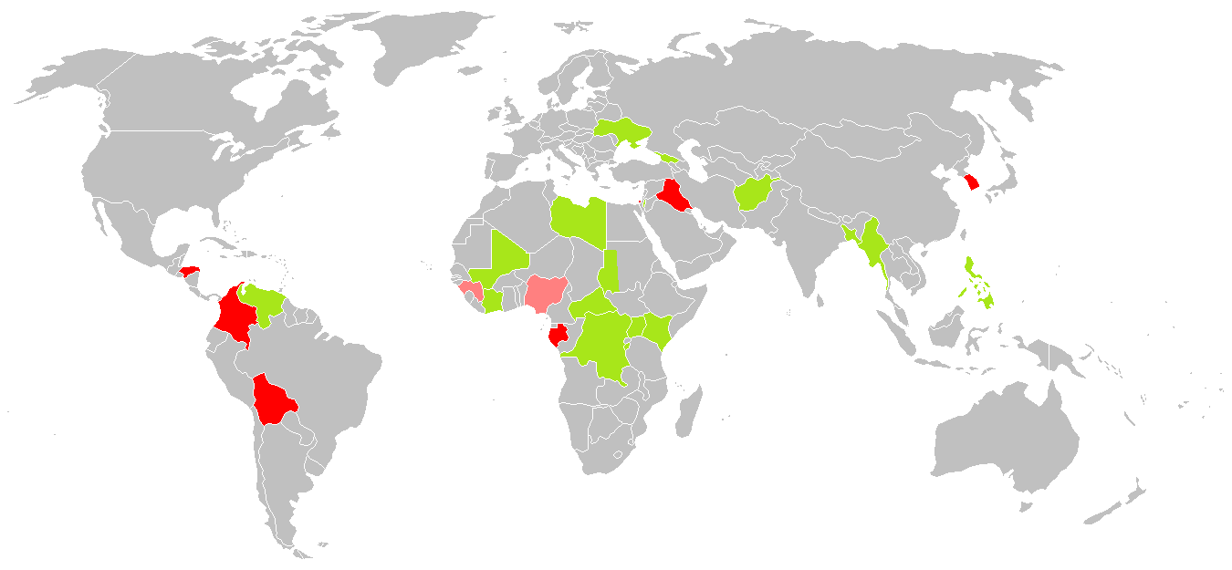 International Criminal Court investigations. Updated to January 2011